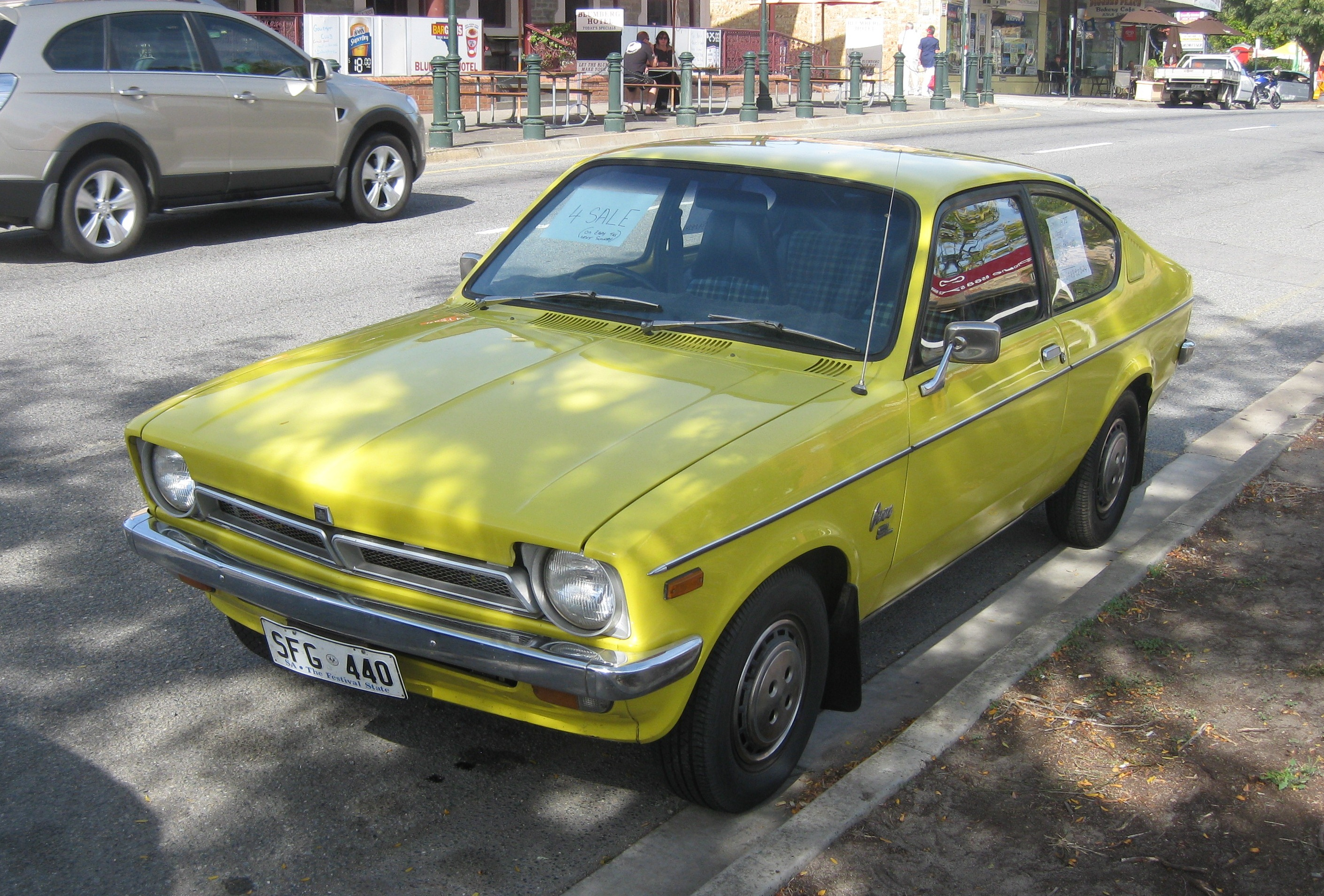 1975 Holden TX Gemini SL Coupe, photographed in South Australia, Australia.